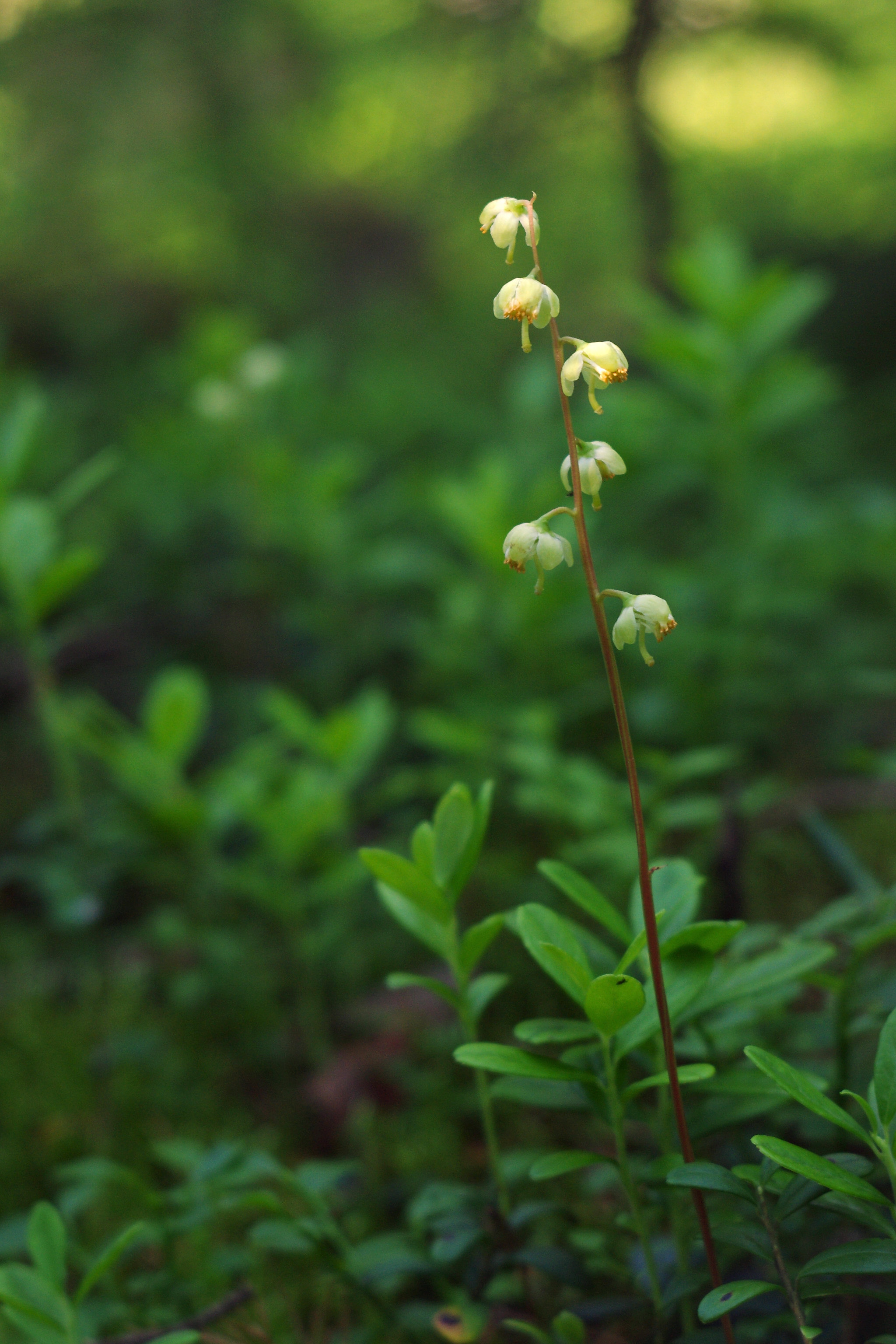 Pyrola chlorantha in Albu Parish, Estonia.